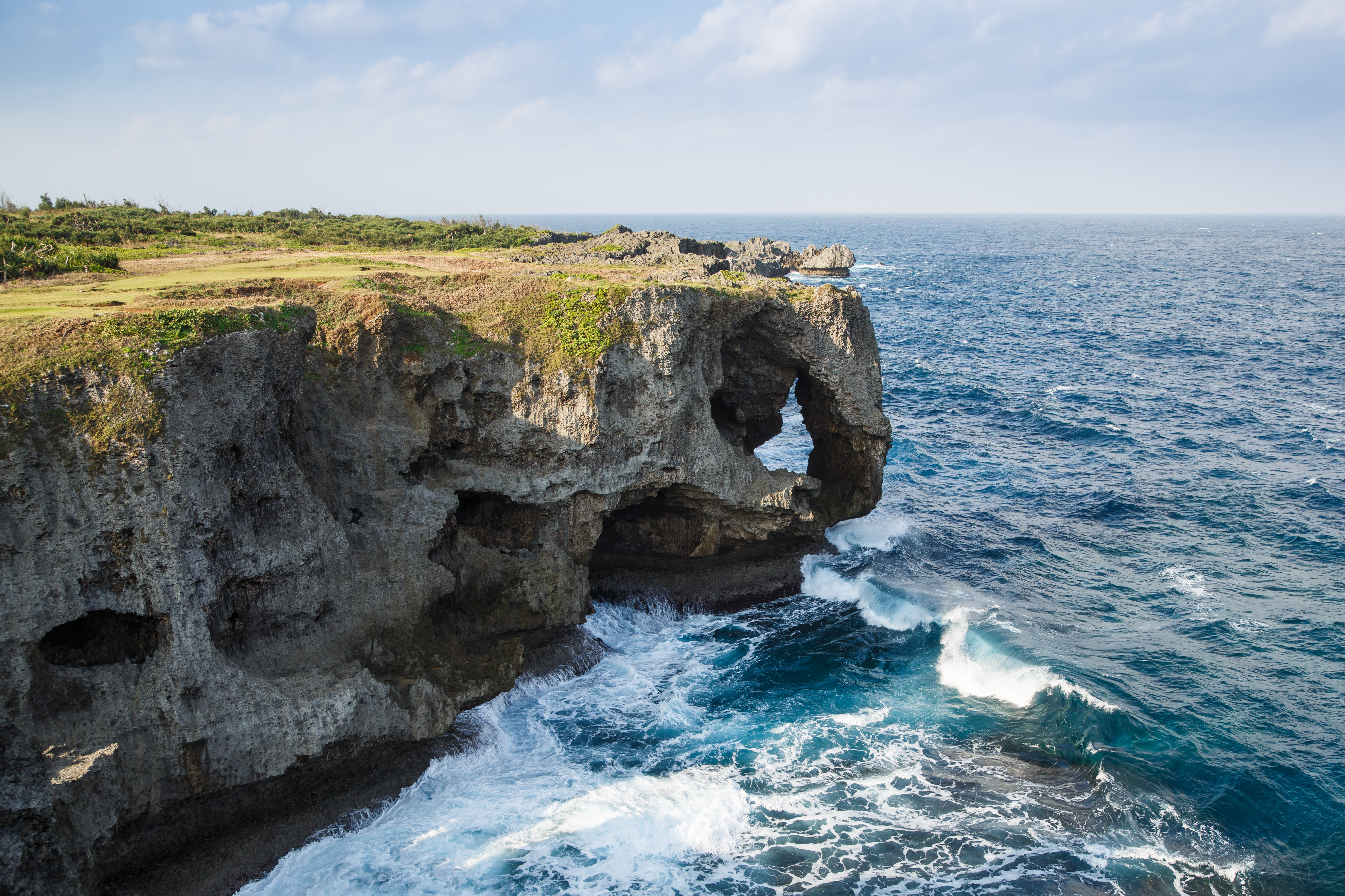 Onna, Okinawa, Japan: The scenic area of Cape Manzamo Cliffs.